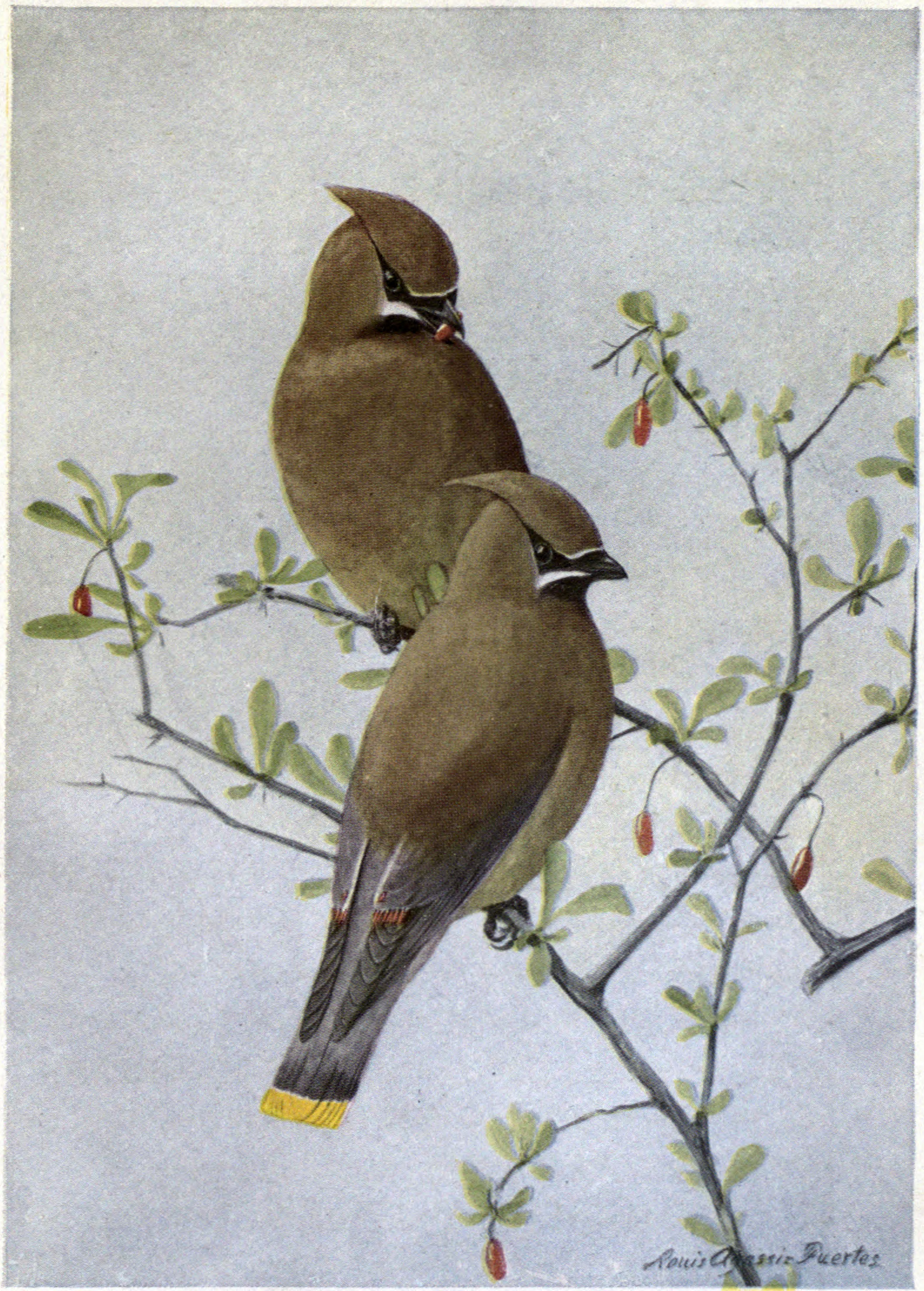 Illustration by Louis Agassiz Fuertes of Cedar Waxwings (Bombycilla cedrorum) from The Burgess Bird Book for Children